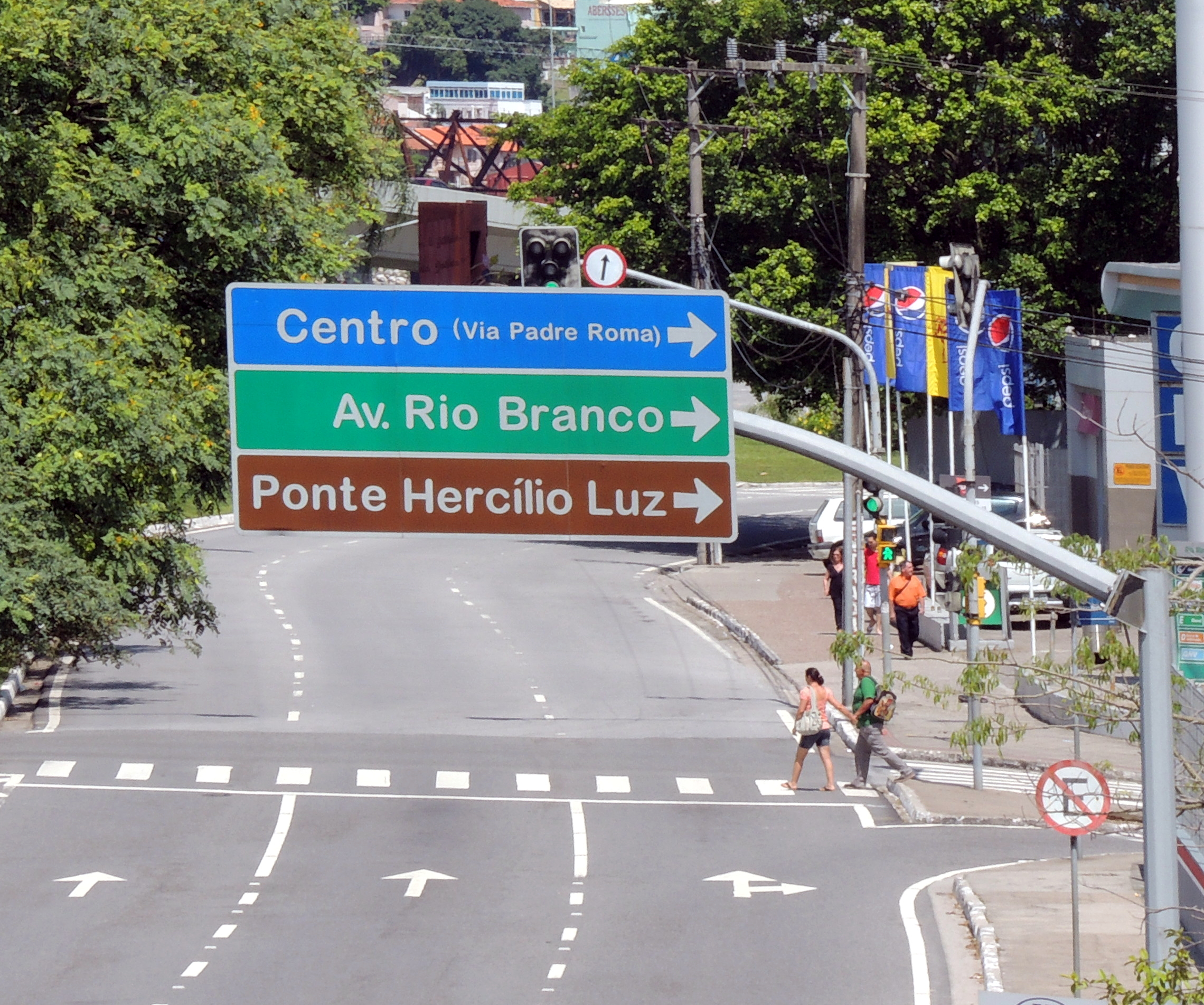 Traffic signal in Florianopolis, Brazil